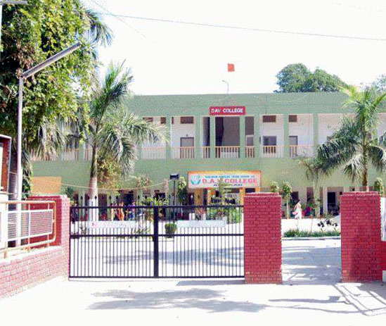 D A V College Abohar, Punjab, Photo by Yogesh Gurera